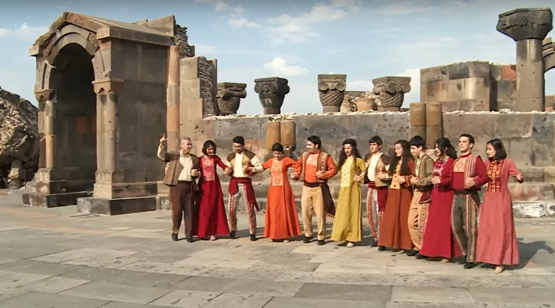 Khamkhama - Armenian traditional song